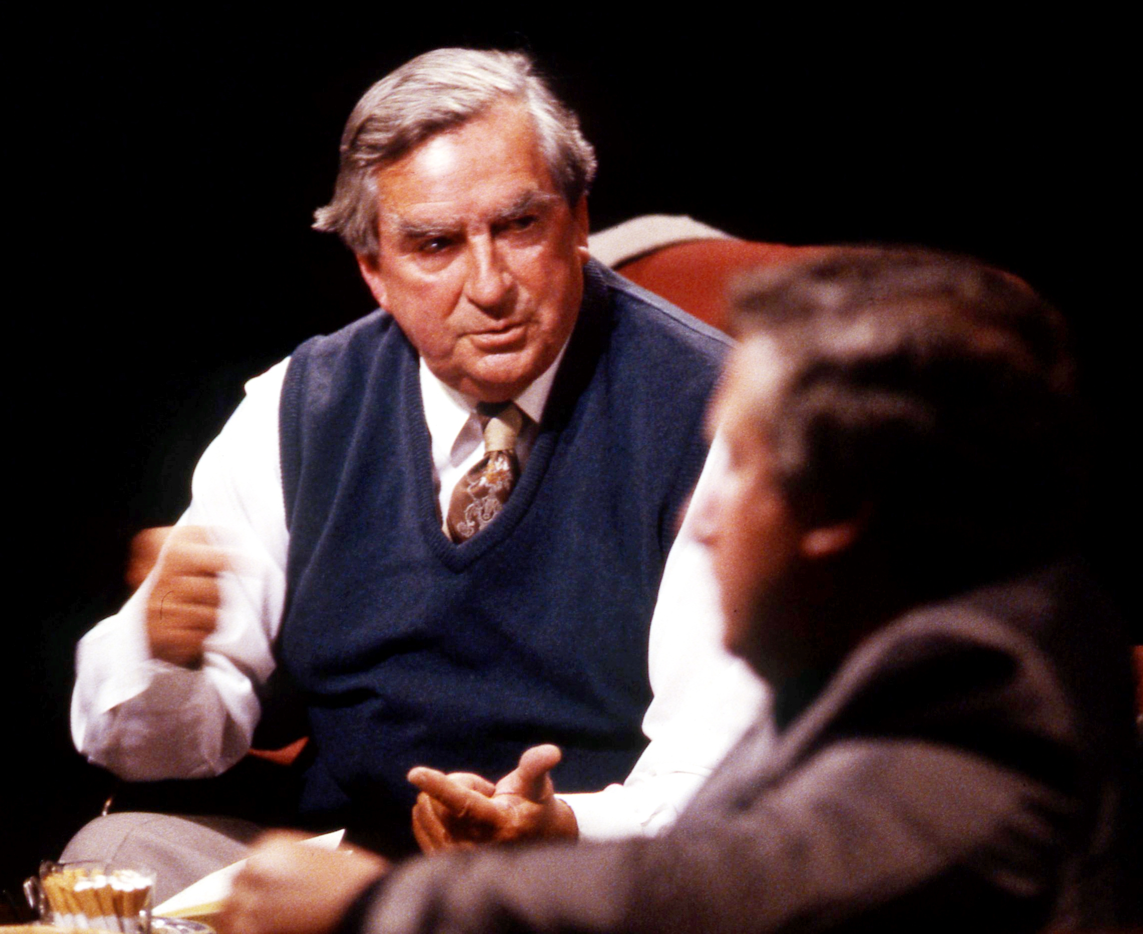 Denis Healey appearing on After Dark on 3 June 1989. Other guests included Vladimir Bukovsky, Martin Walker, Tatyana Tolstaya and Vitali Vitaliev. More here.